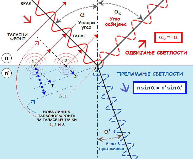 ПРЕЛАМАЊЕ СВЕТЛОСТИ